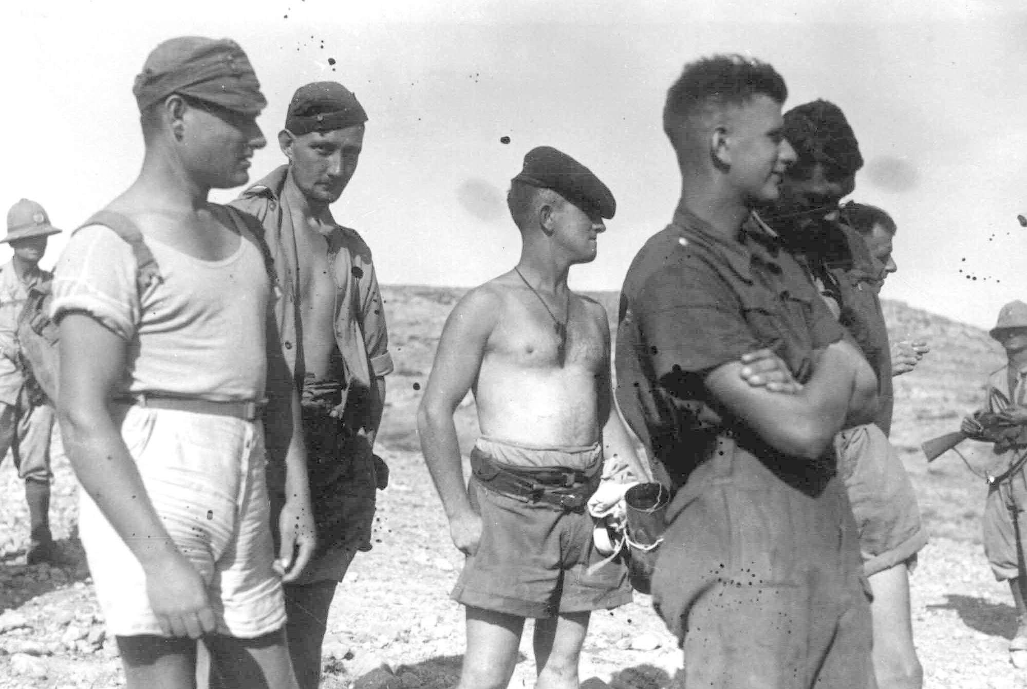 Allies troops captured during Operation Brevity